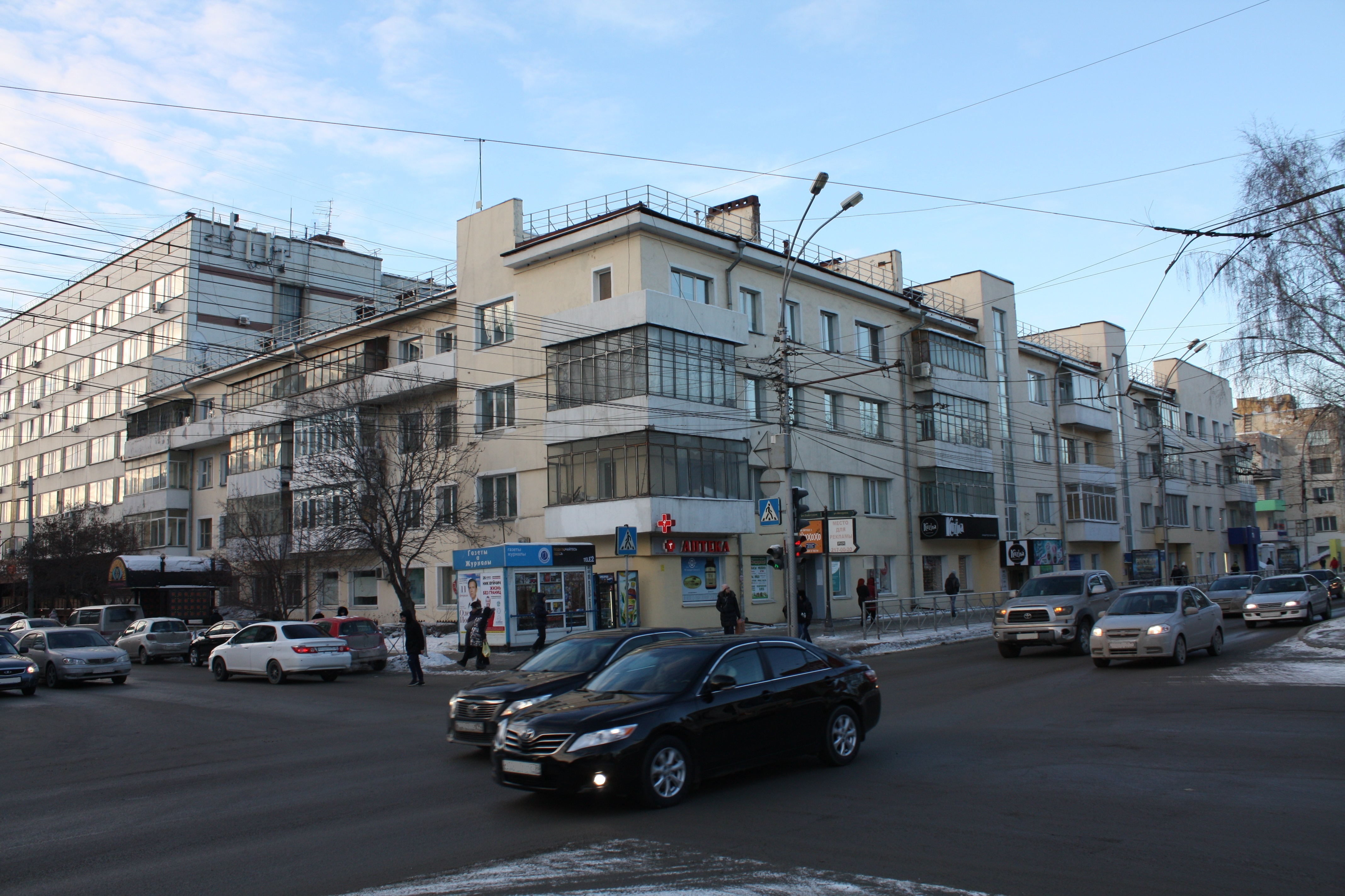 Krasny Avenue, 49. Tsentralny City District, Novosibirsk, Russia.